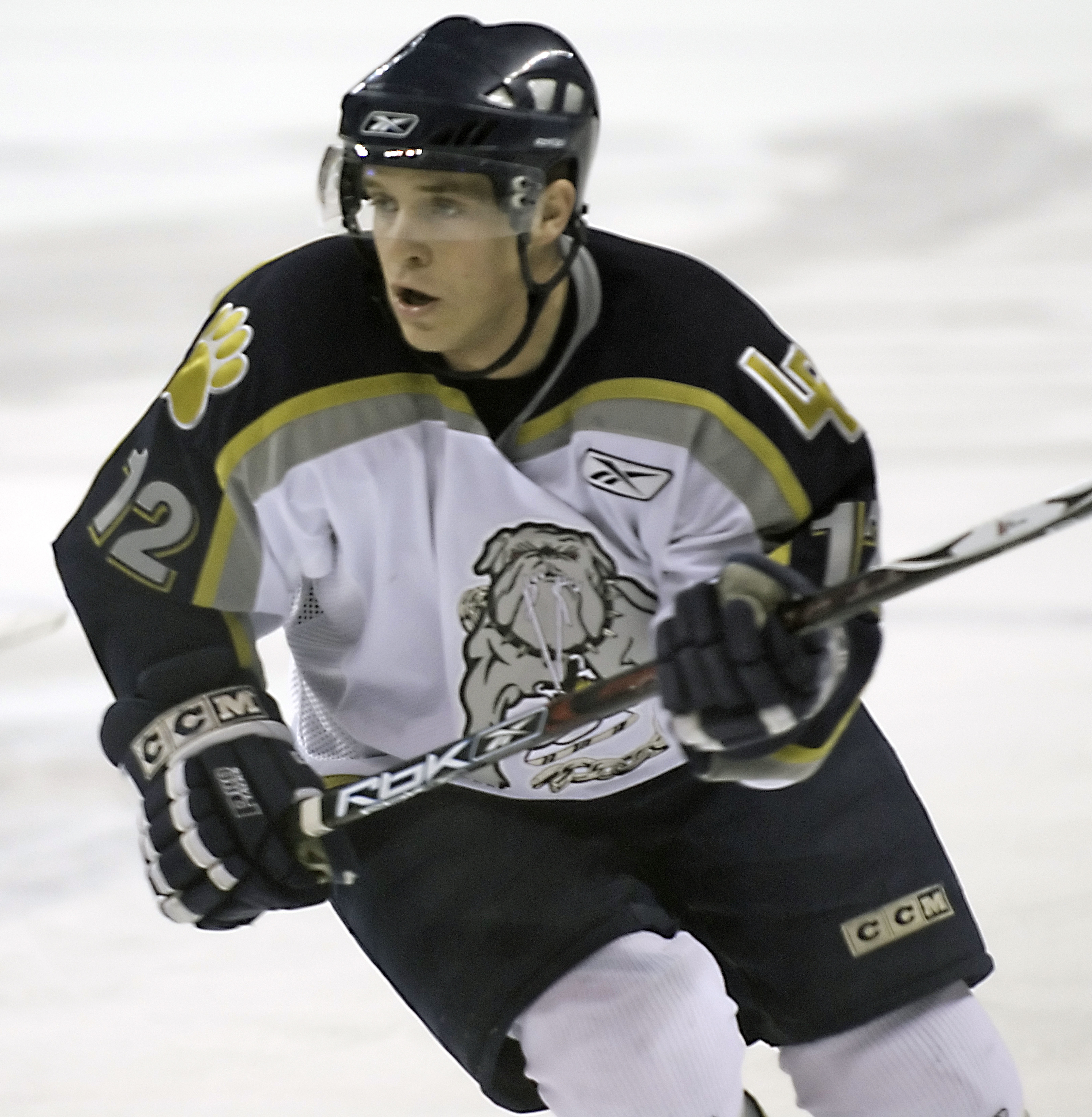 Chris Collins